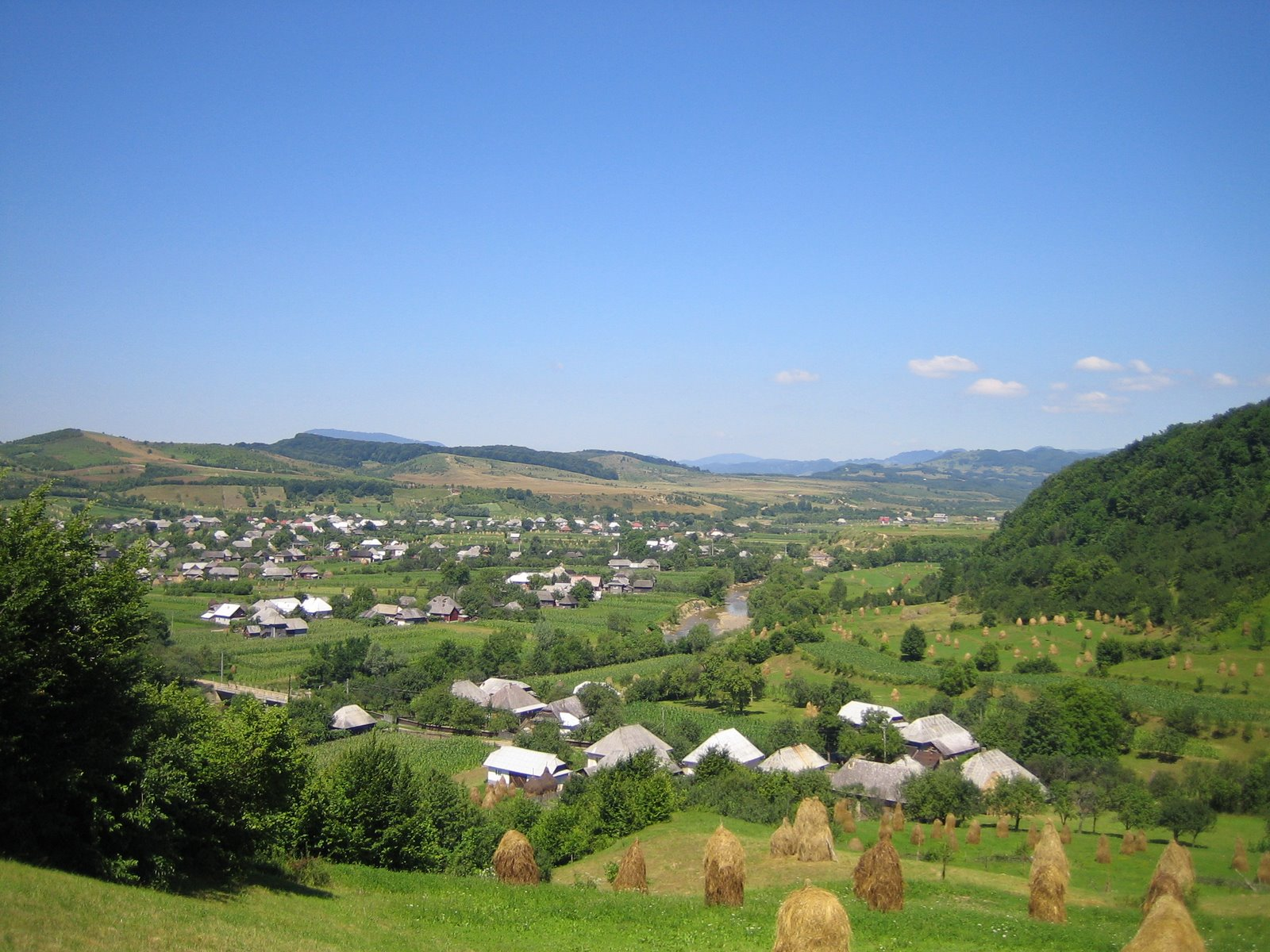 View of the north side of the Lăpuş village in the Lăpuş commune in Maramureş County, Romania